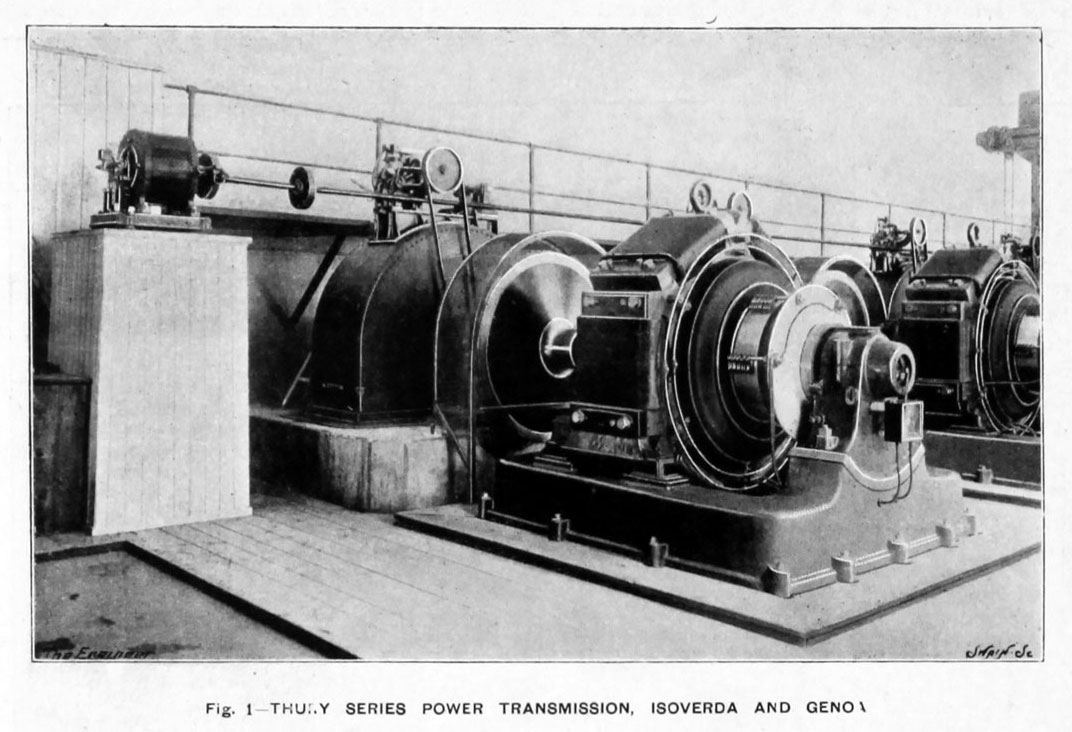 Thury series power transmission, Isoverda and Genoa